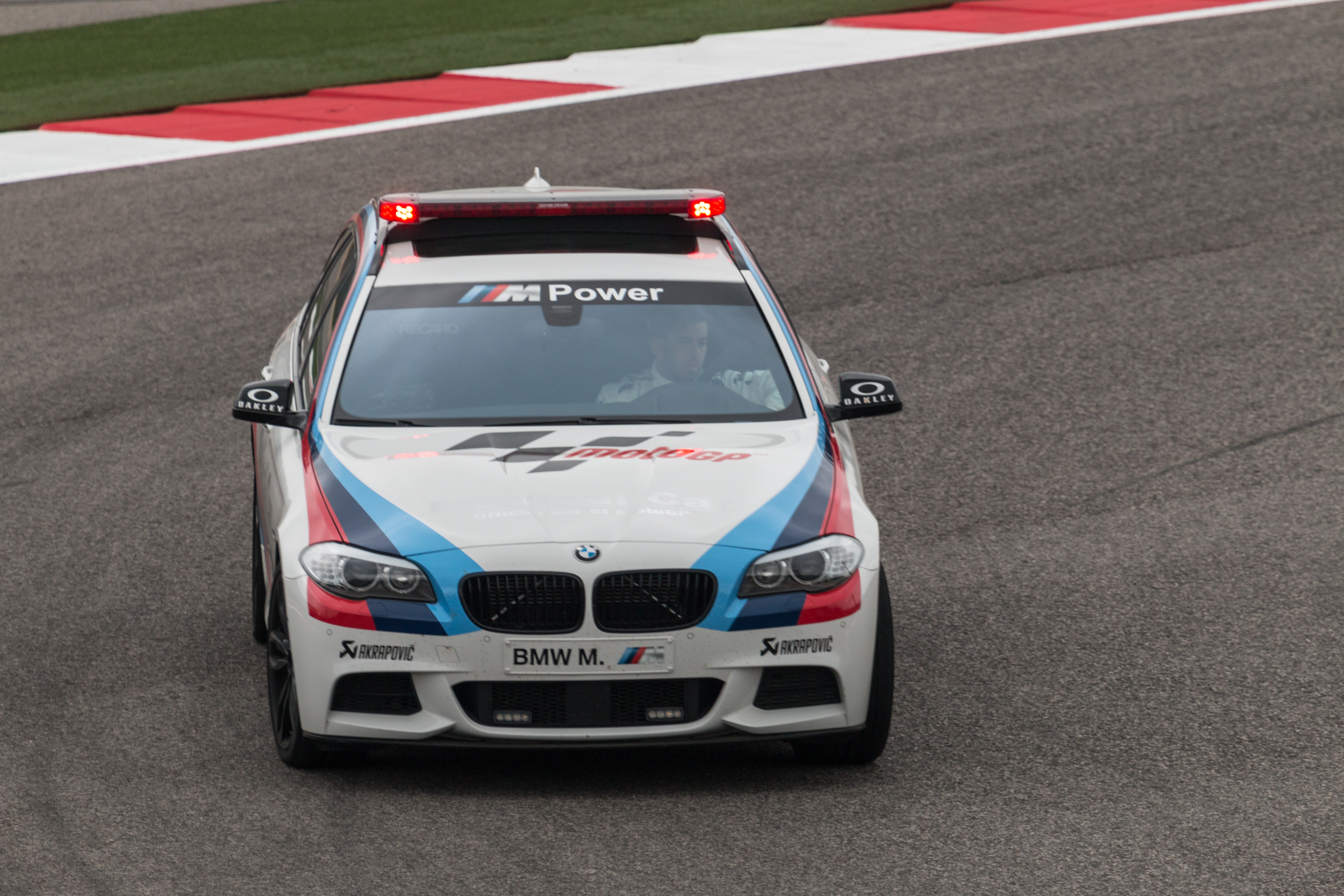 Safety Car